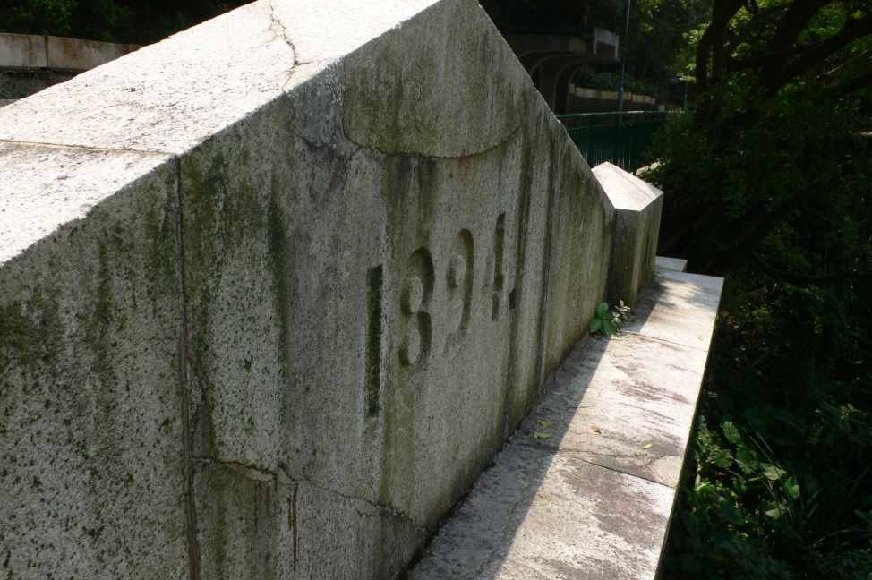 The Remains of Water Gate of Braemar Hill Reservoir, Hong Kong